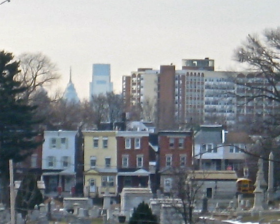 Center City skyline